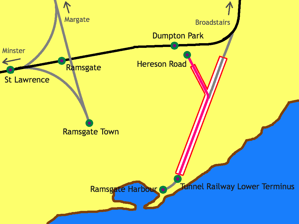 Layout of railway lines and former lines in Ramsgate, Kent, England